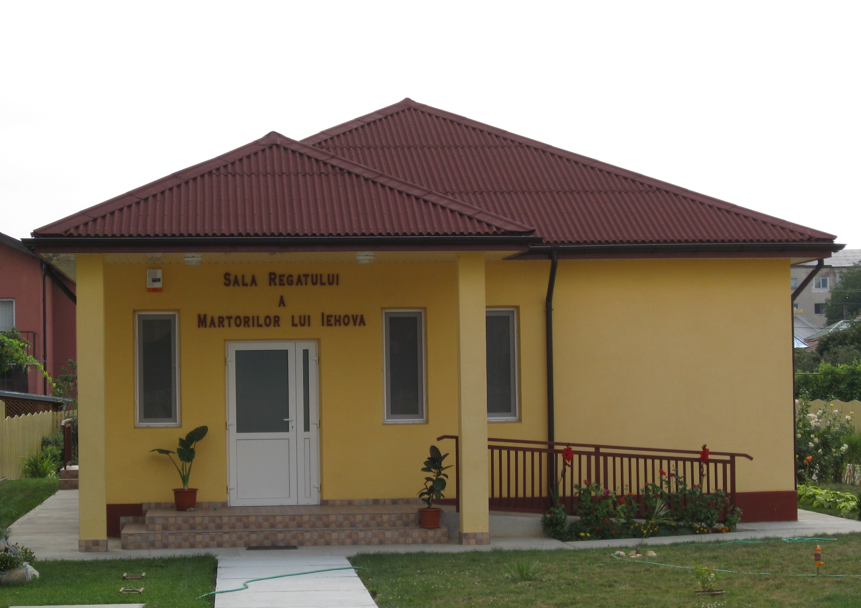 A Jehovah's Witnesses Kingdom Hall in Târgovişte, Romania